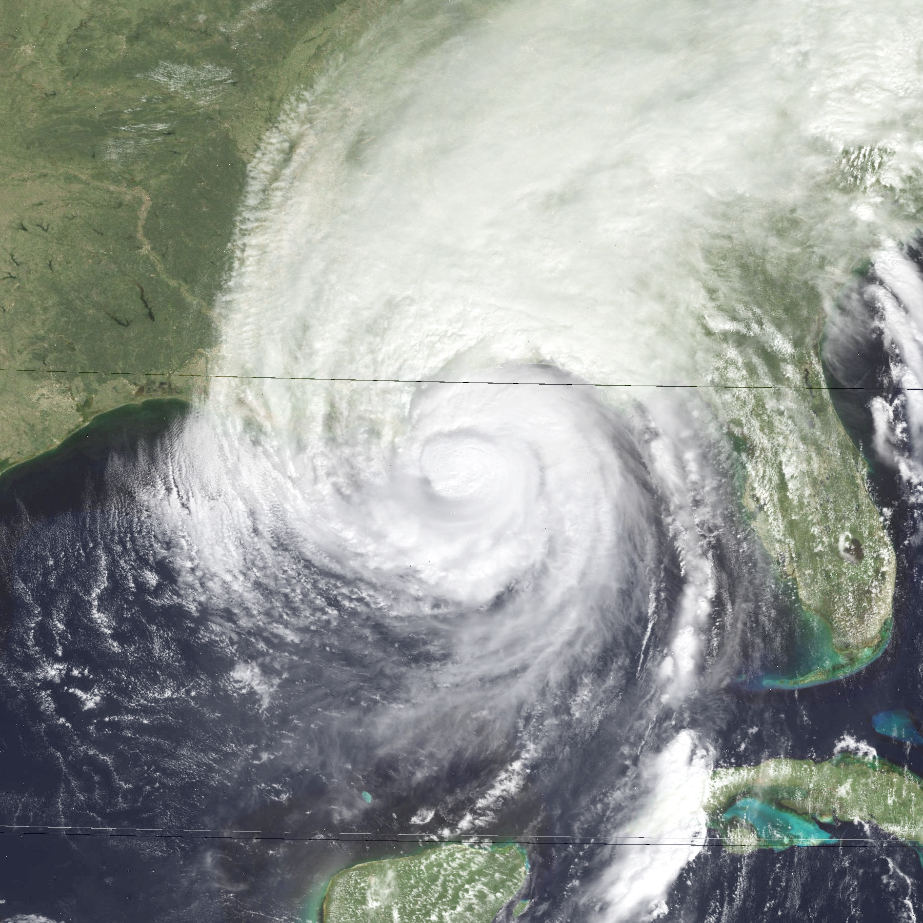 Hurricane Opal near landfall in Florida as a large Category 3 hurricane on October 4, 1995